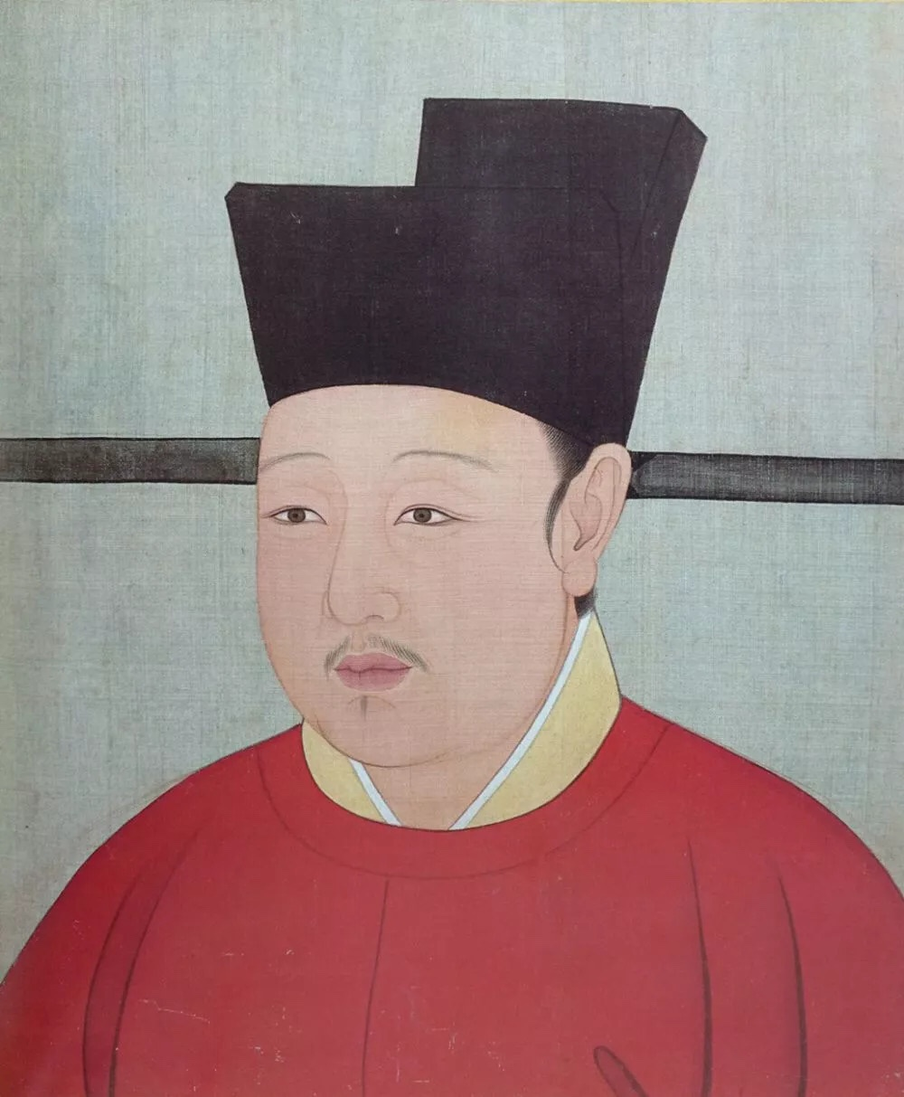 Emperor Huizong of Song.